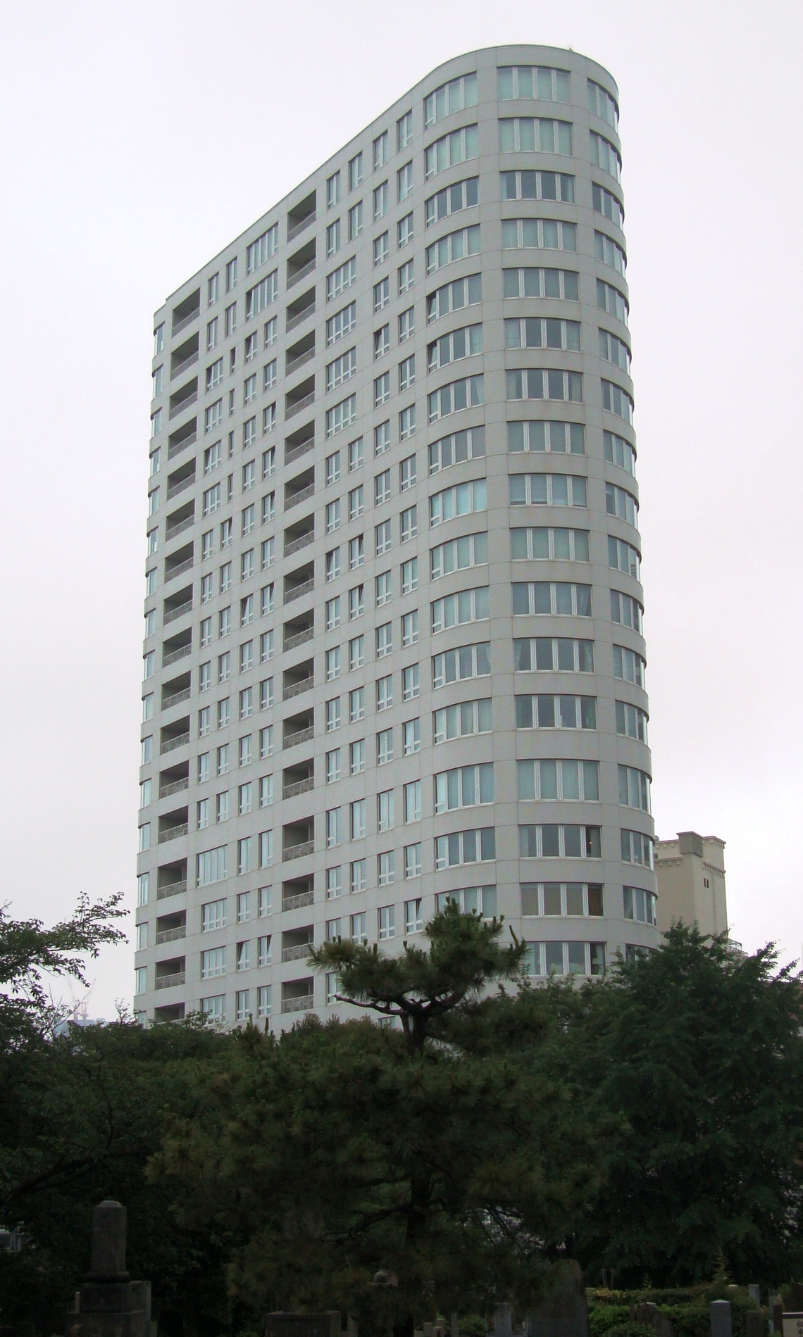 The Tower Aoyama, apartment building, Aoyama, Tokyo